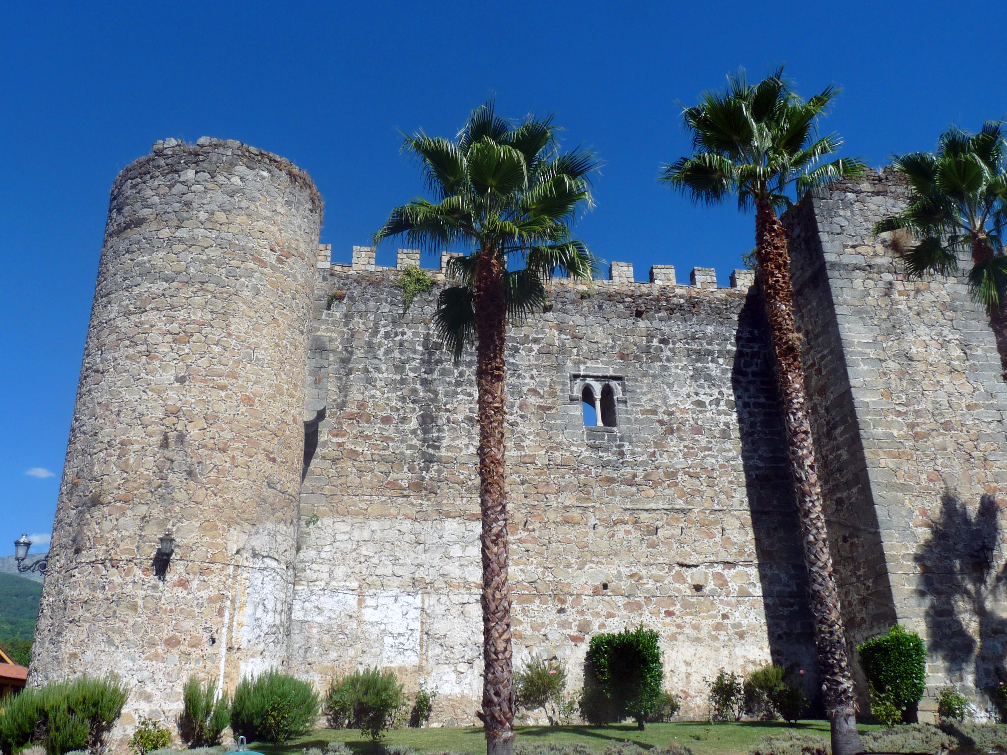 Castle of Arenas de San Pedro, Ávila, Castile and León, Spain.